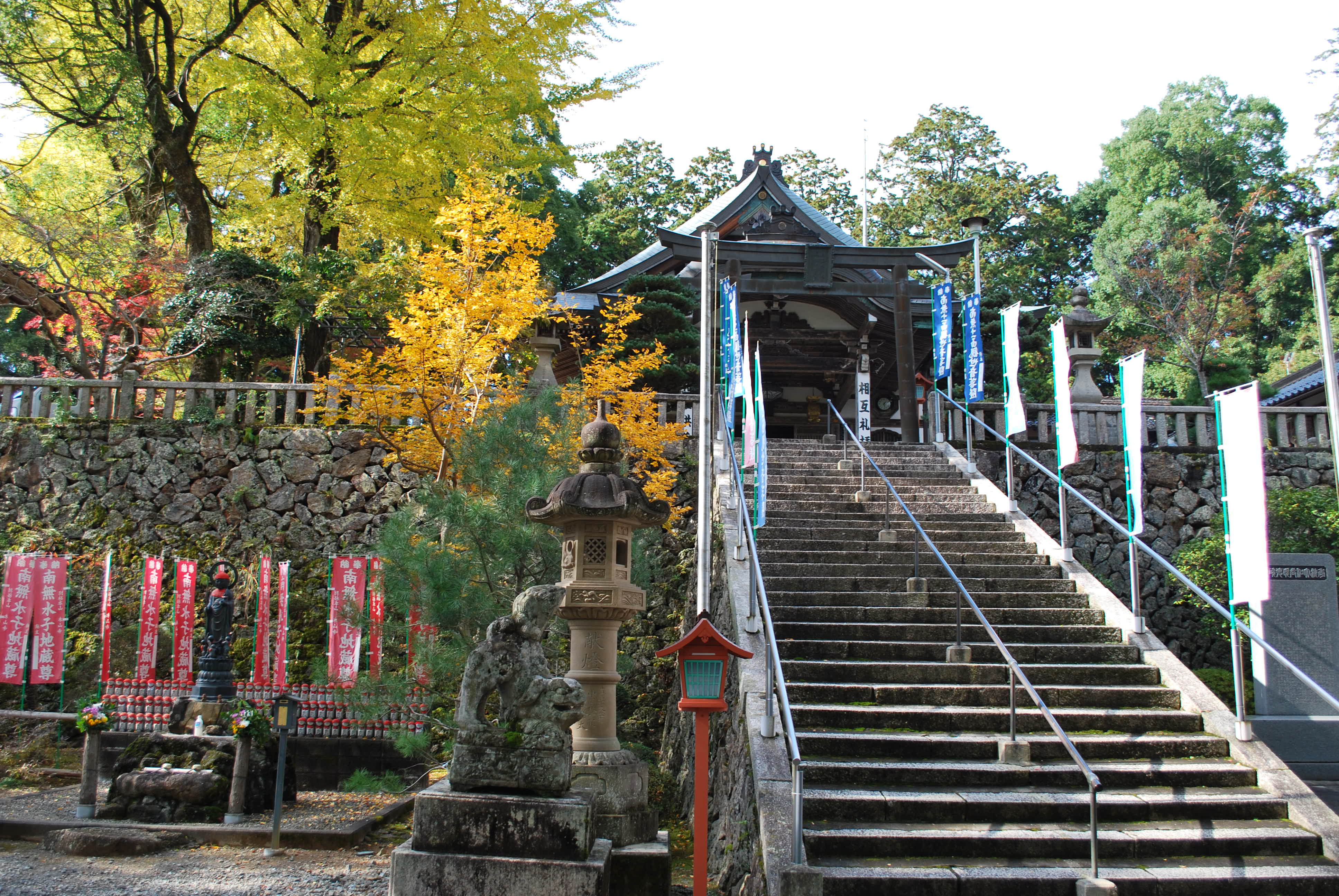 Stairway to the main temple, Kiyama-ji